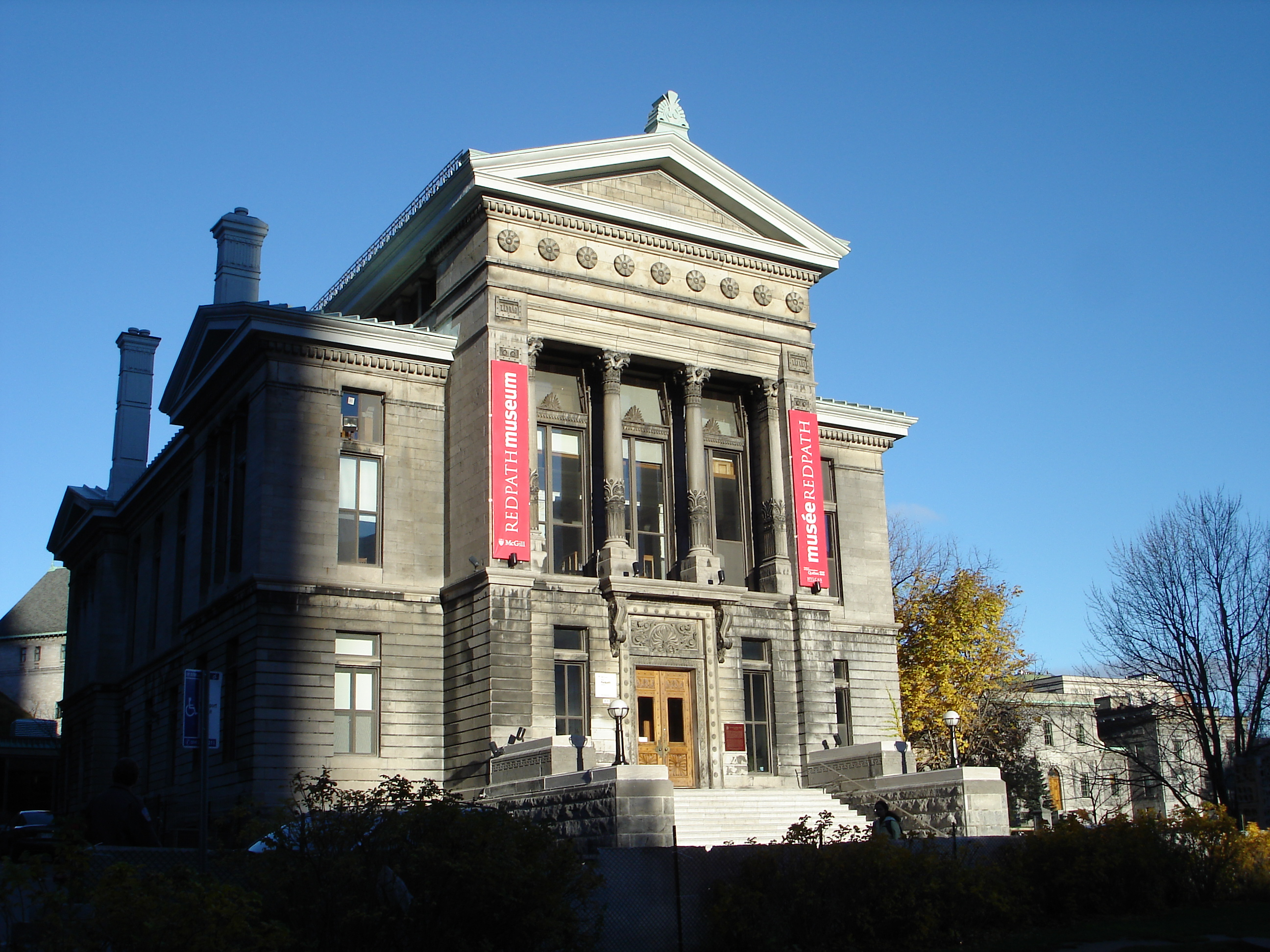 Redpath Museum, McGill University, Montreal